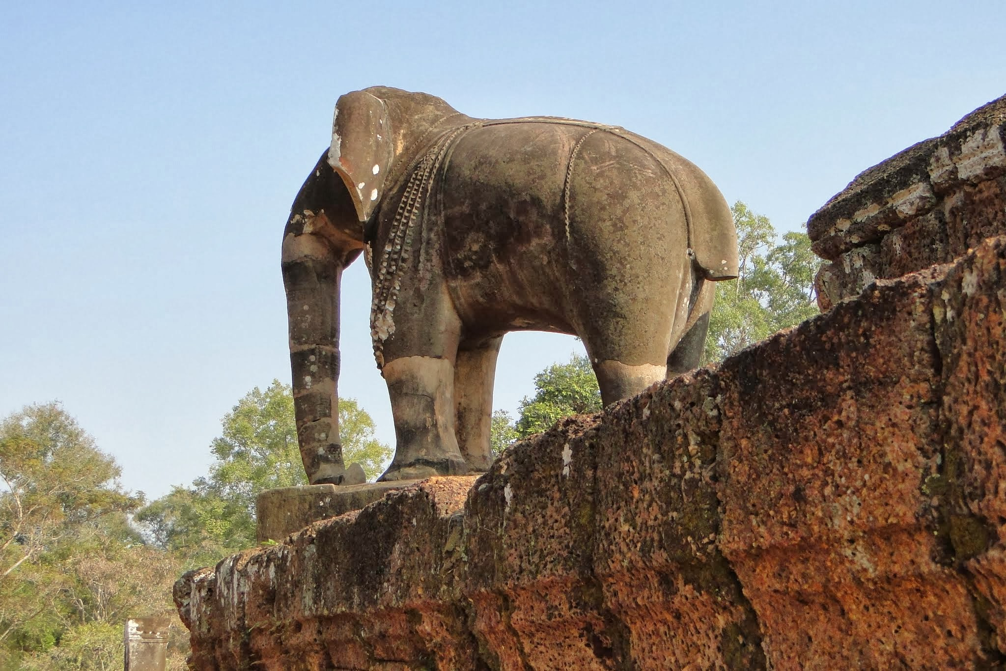 Elephant am zweiten Ebene